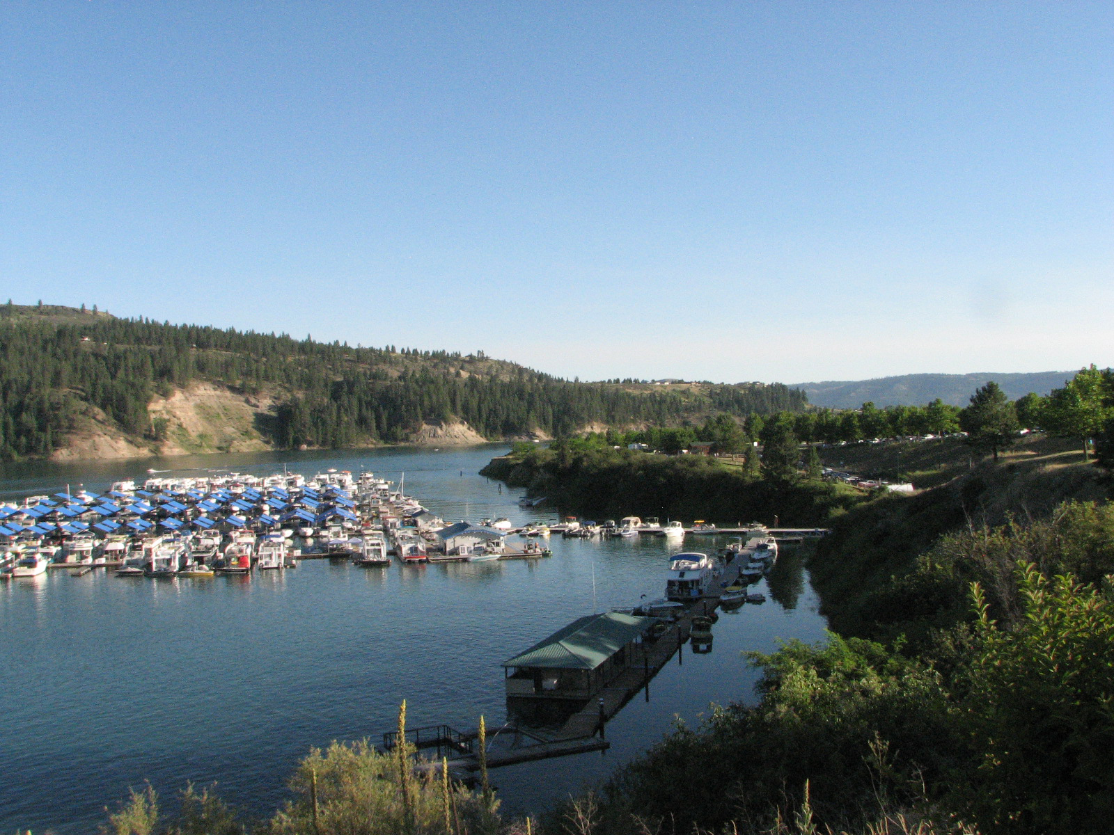 Lake Roosevelt taken from Two Rivers Marina